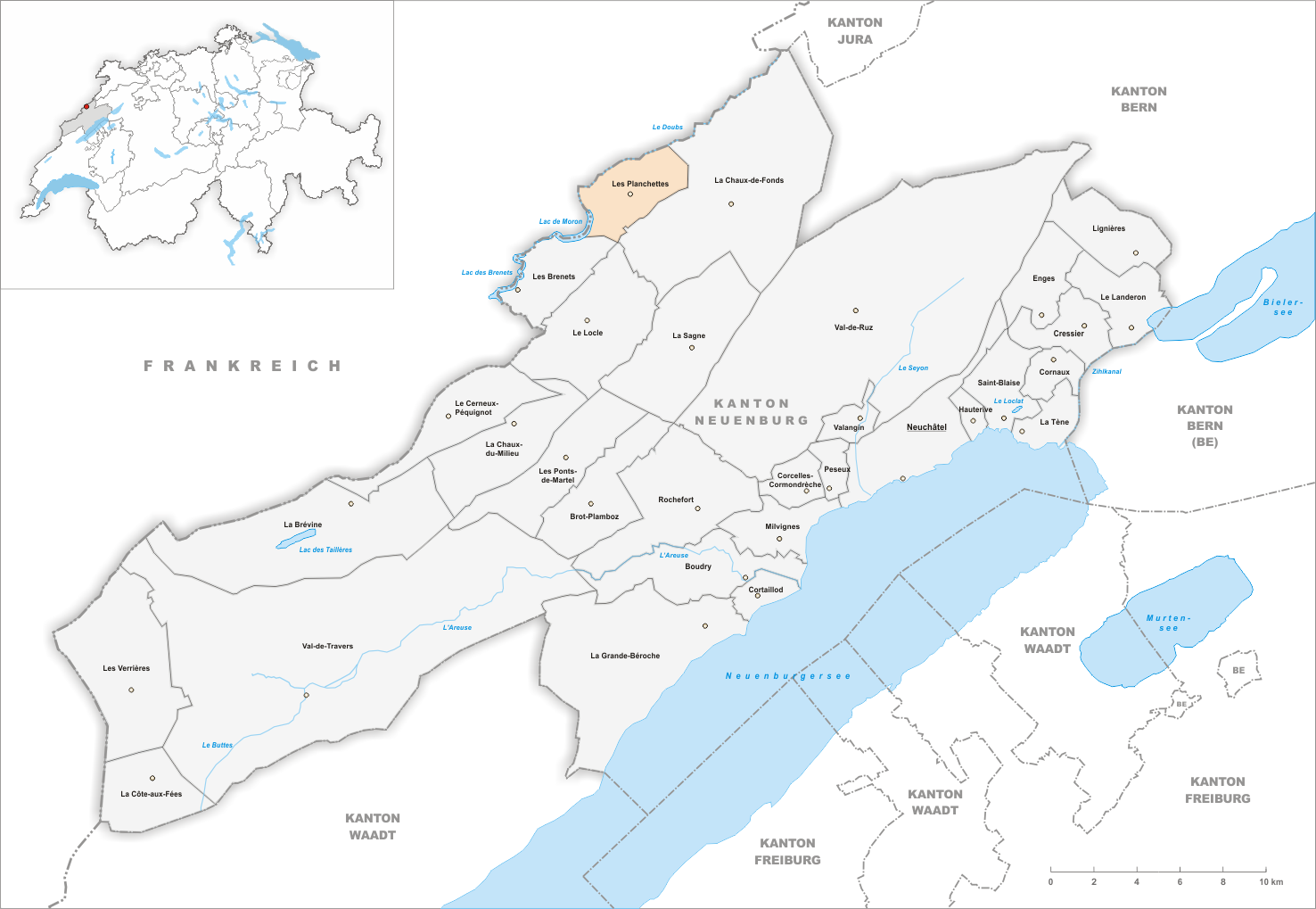 Municipality Les Planchettes